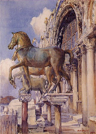 Venice 1905 Watercolour Stampe ad acquarello, Venezia | Stampe ad acquarello di Venezia